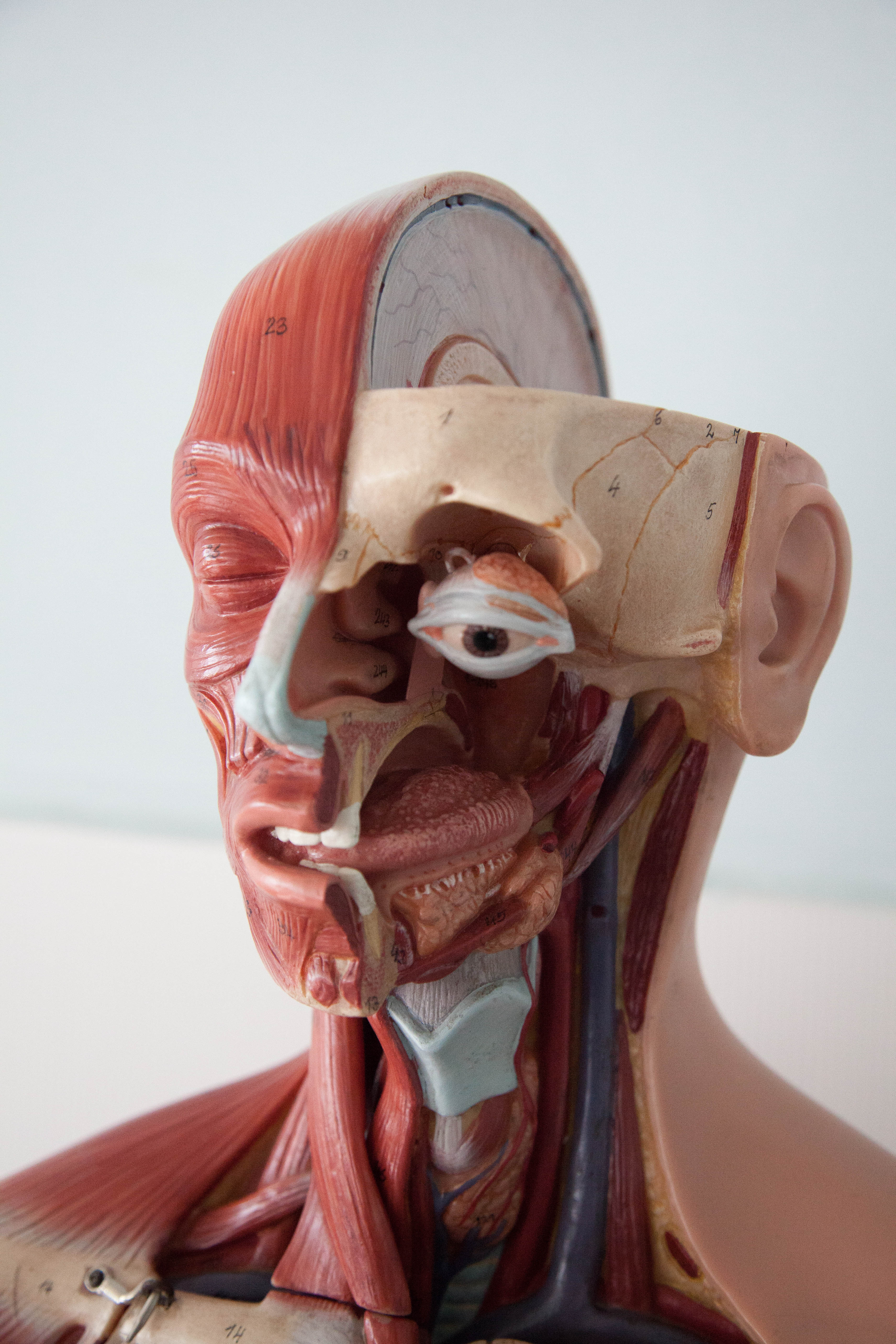 Head Anatomy